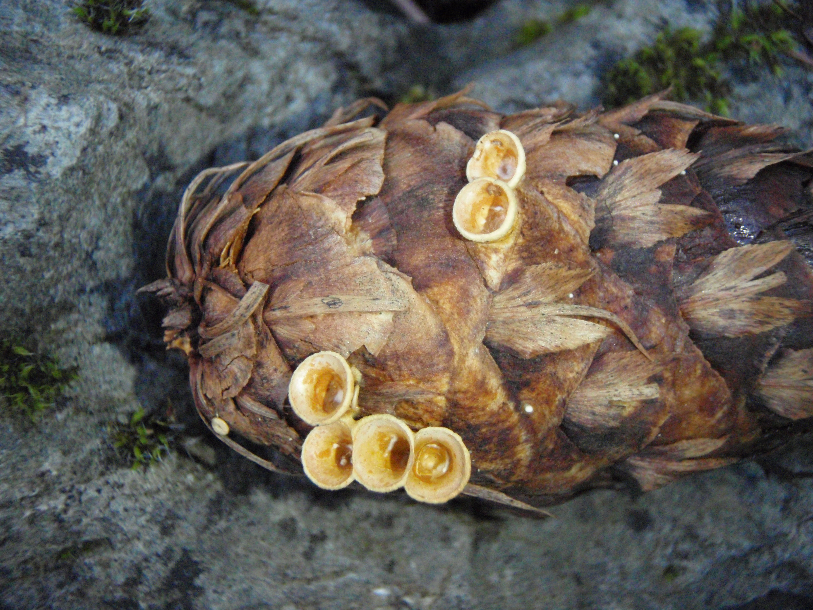 The bird's nest fungus Crucibulum laeve (Huds.: Relh) Kambly. Photographed in Ti Bar Fire Station, Siskiyou Co., California, USA. Notes: "On Fir cone on forest floor."